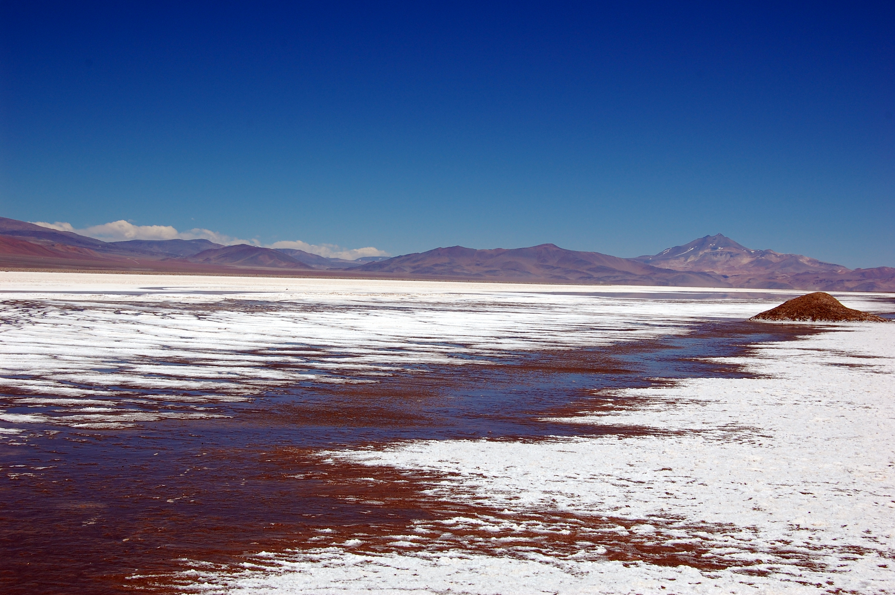 Salar de Maricunga, Nevado Tres Cruces National Park, Atacama Region, Chile.